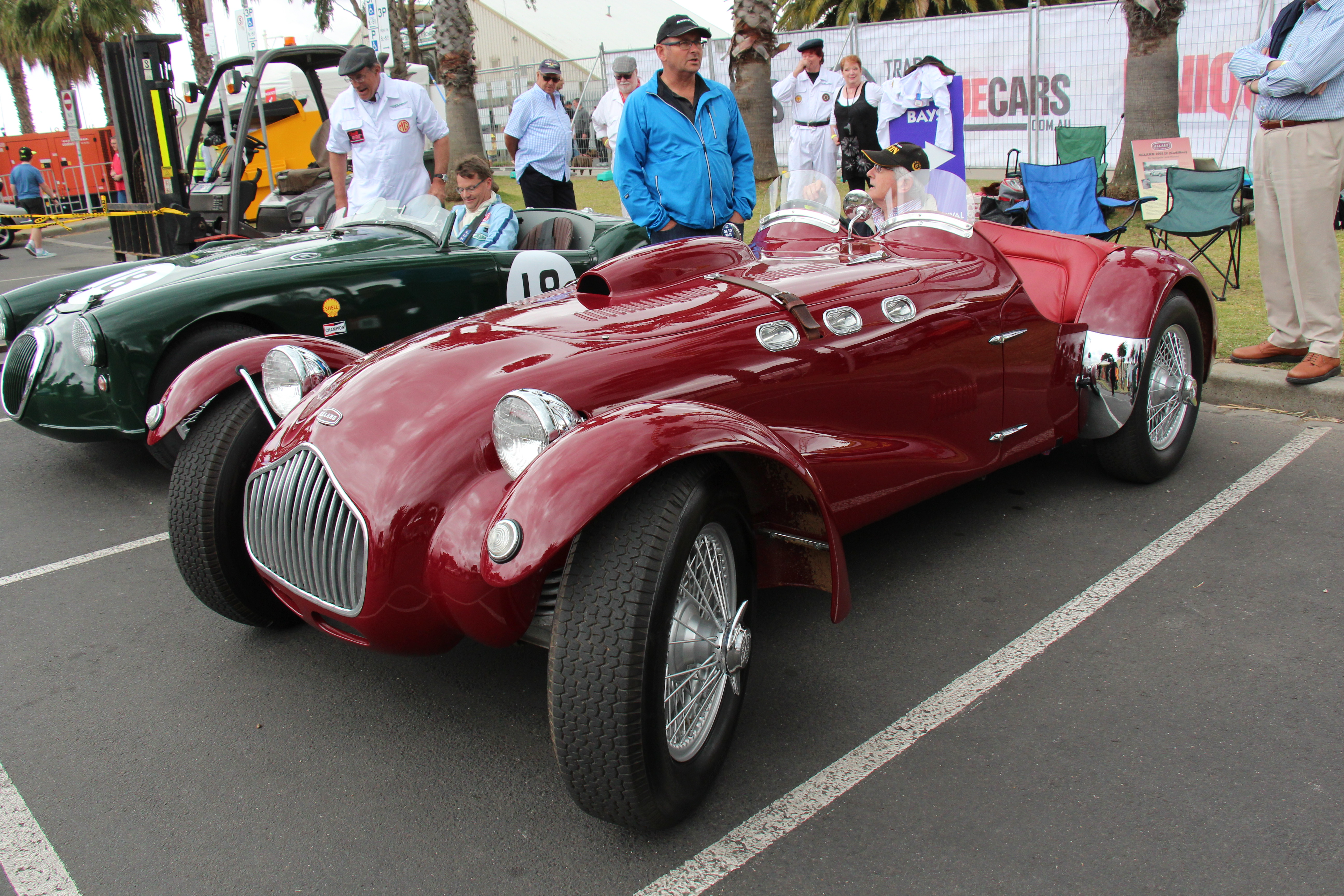 The Allard Motor Company Limited was a London based low volume car manufacturer founded in 1945 by Sydney Allard. Allards featured large American V8 engines in a light British chassis and body. Cobra designer Carroll Shelby and Chevrolet Corvette chief engineer Zora Arkus-Duntov both drove Allards in the early 1950s, obviously getting their inspiration from the Allard. The first pre war Allard cars were built specifically to compete in Trials events, powered mainly by Fords flathead V8 After the war 3 models were introduced; the J, a competition sports car; the K, a slightly larger car intended for road use, and the four seater L, later the drophead coupe M and P By 1950 the J2 Roadster proved to be a highly competitive international race car, now not only powered by Ford and Mercury V8s, but Cadillac, Chrysler Buick and Oldsmobile V8s